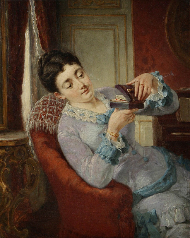 Young woman in bourgeois interior with letter box in her hands. Canvas. Signed 'L.Baes'. Restored. Dimensions : 40.3 x 32.4 cm